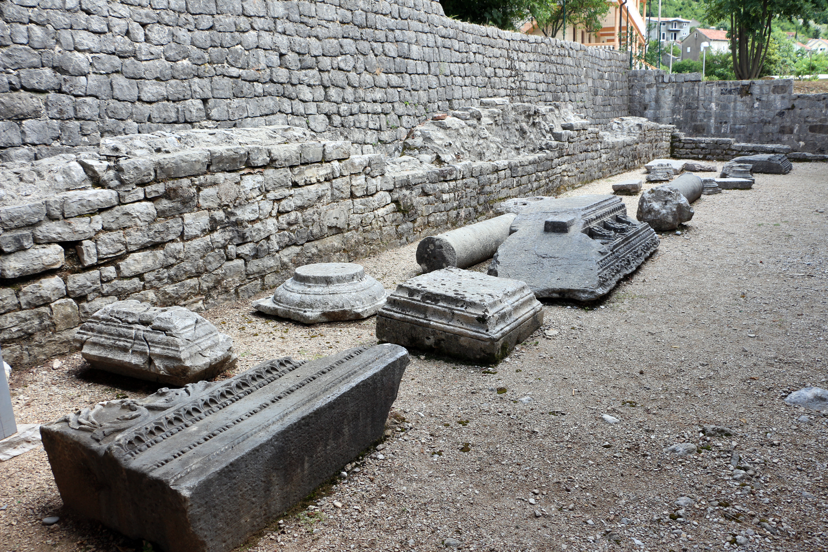 Ancient Roman villa of Risan